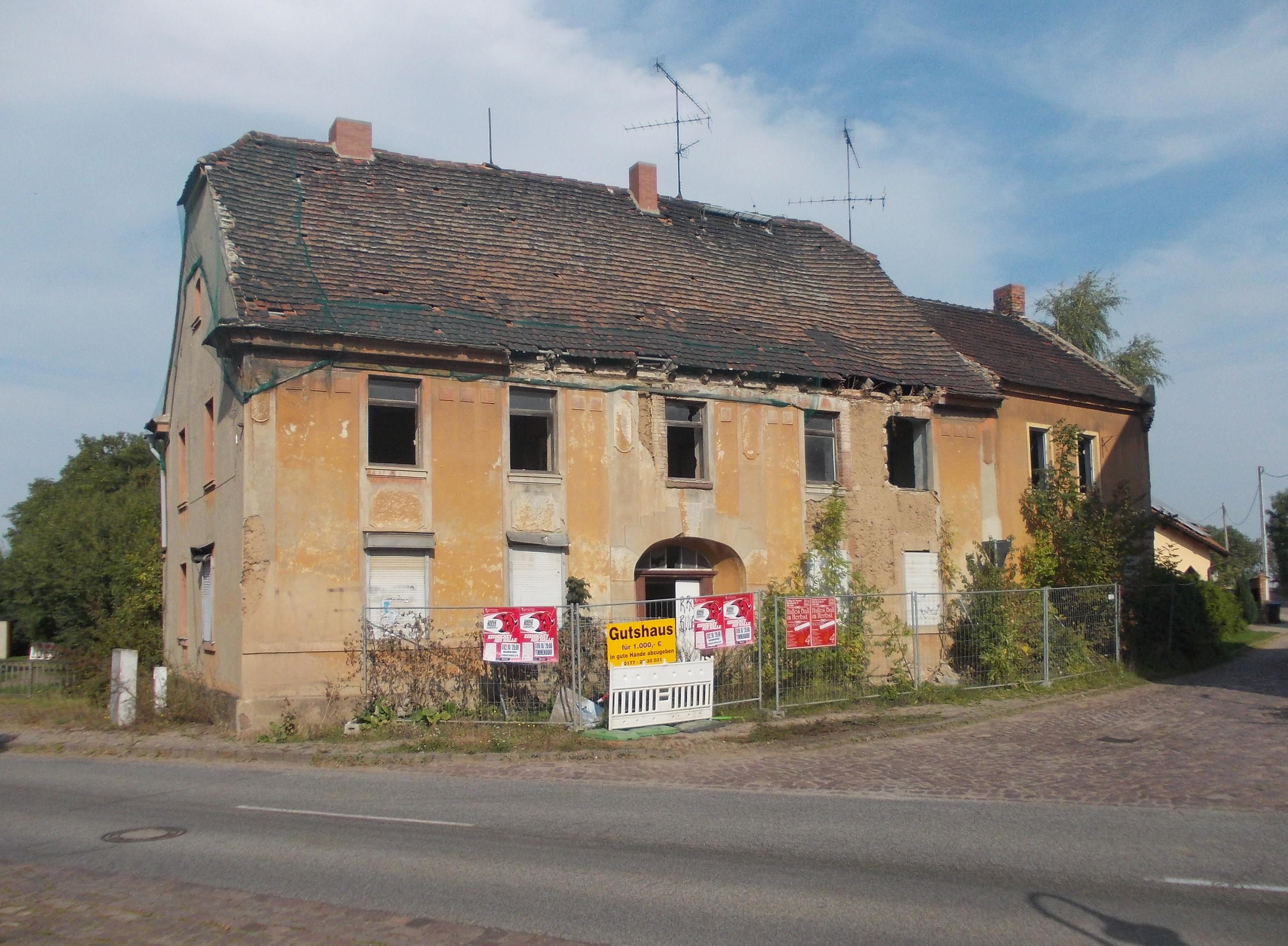 Manor house in Kaltenmark (Petersberg, district: Saalekreis, Saxony-Anhalt)